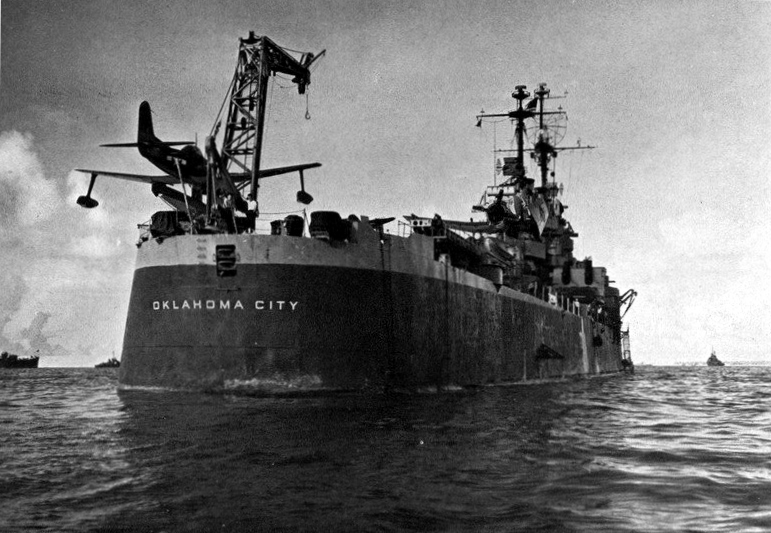 Stern view of the U.S. Navy light cruiser USS Oklahoma City (CL-91) at anchor. Note the Curtiss SC-1 Seahawk floatplanes.